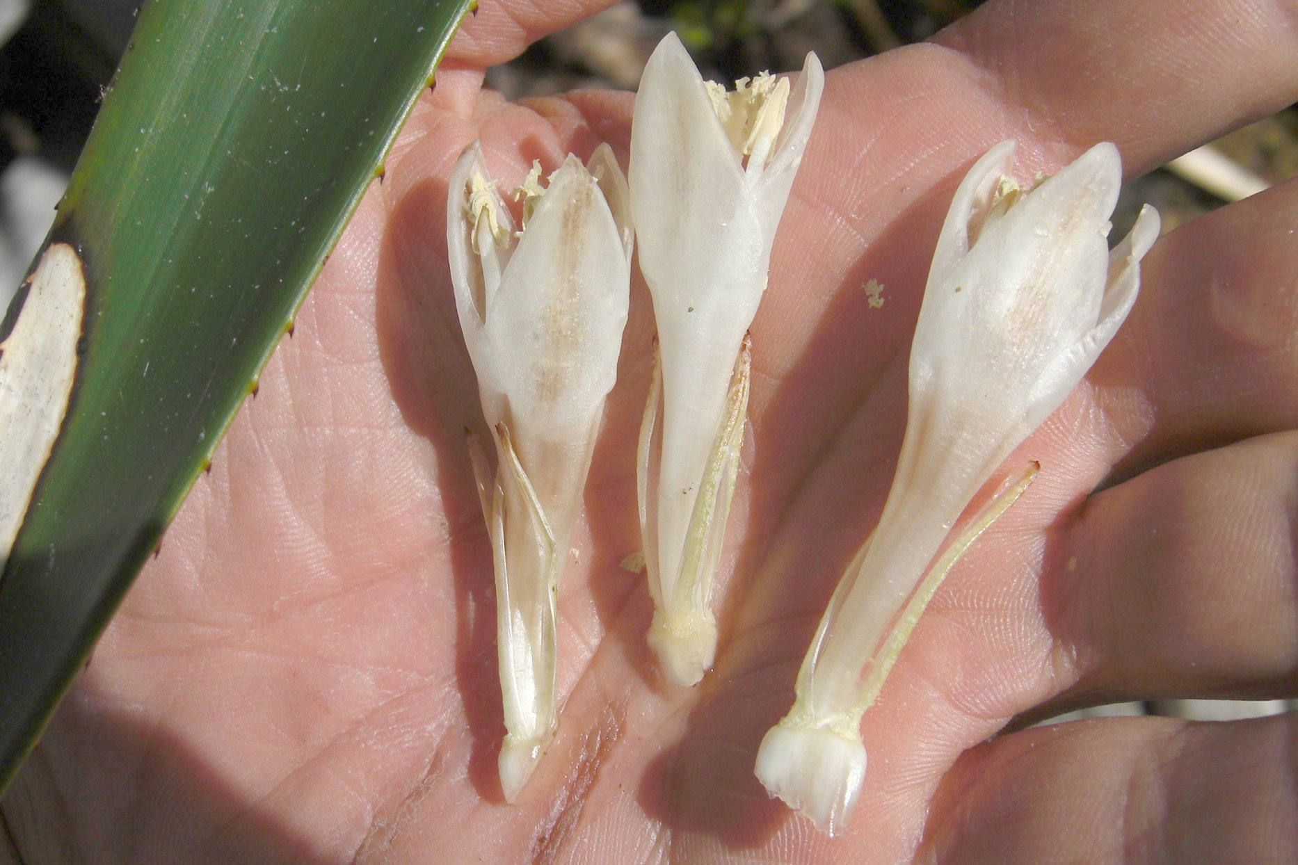 Greigia sphacelata (Ruiz & Pav.) Regel 20090101.5 Parque Nacional Chiloé, Chile Or a related species? This one was common along the boardwalk at Parque Nacional Chiloé, but very similar plants are common throughout southern Chile. (Note, the hypanthia were seriously damaged by my inadequate attempt to extricate the flowers intact.)